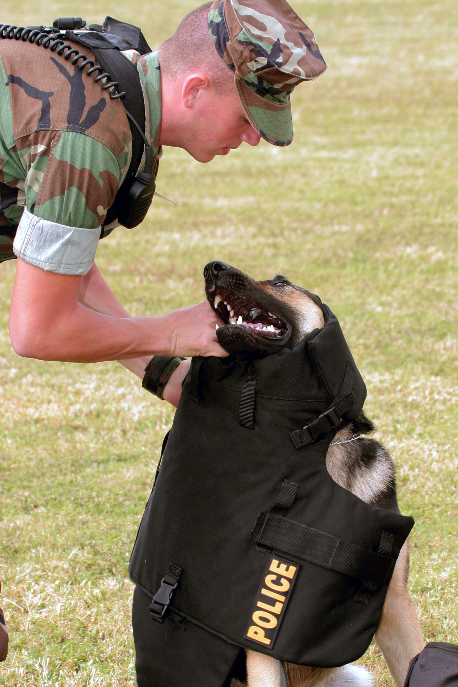 Pearl Harbor, Hawaii (Mar. 29, 2004) - Master-at-Arms 3rd Class Eliot Fiaschi dresses “Arpi”, a German Shepard Military Working Dog (MWD) in body armor prior to a demonstration at a local Boys and Girls Club. Petty Officer Fiaschi and Arpi are one of five MWD teams assigned to Naval Station Pearl Harbor Security used for bomb or narcotics detection and various security patrols. U.S. Navy photo by Photographer’s Mate 1st Class William R. Goodwin. (RELEASED)